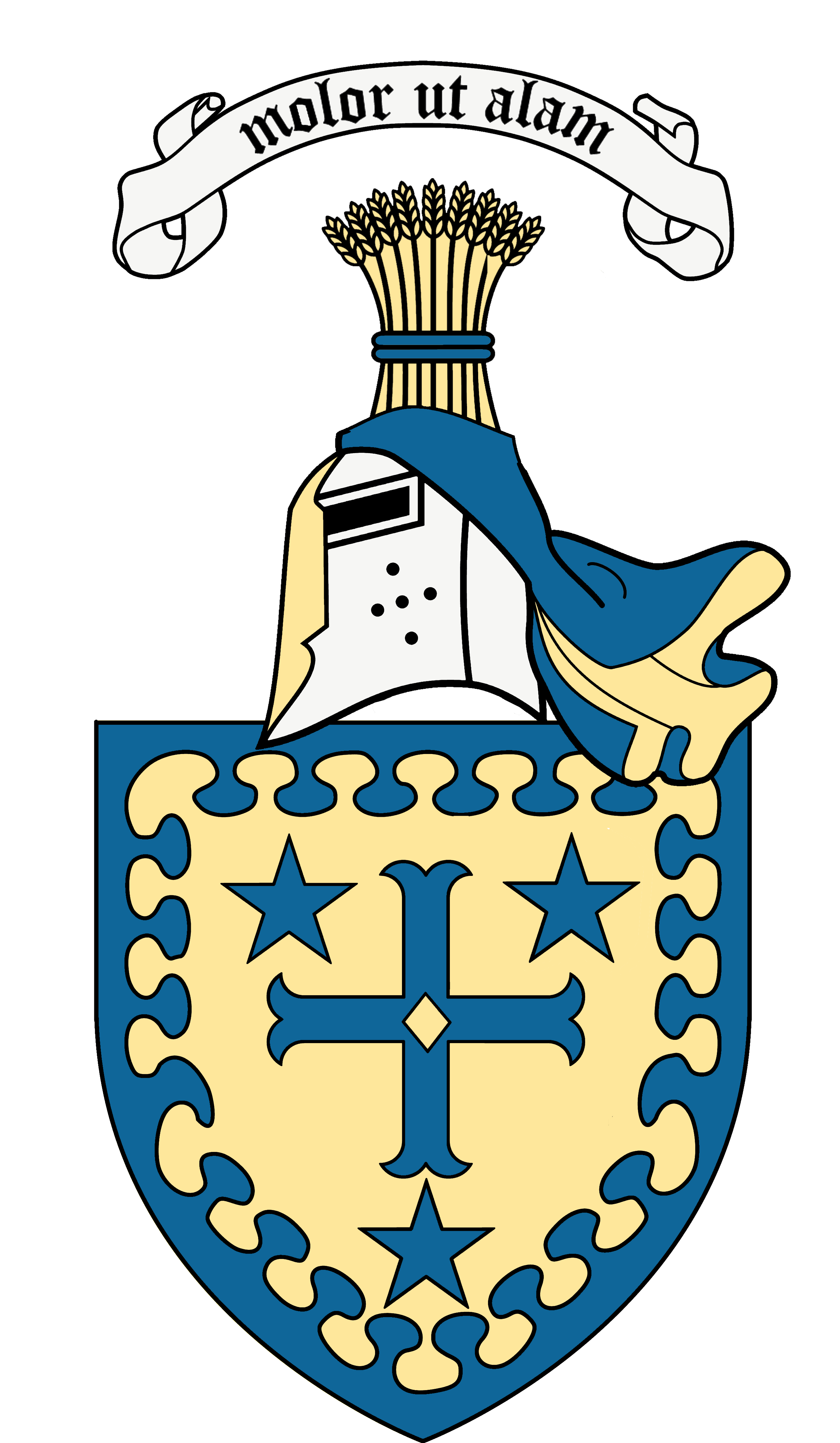 Coat of arms of Robert Mylne (1643-1747), Scottish writer and engraver. Blazon: Or, a cross moline azure, pierced lozenge-ways, between three mullets of the last, within a bordure nebulé of the second.